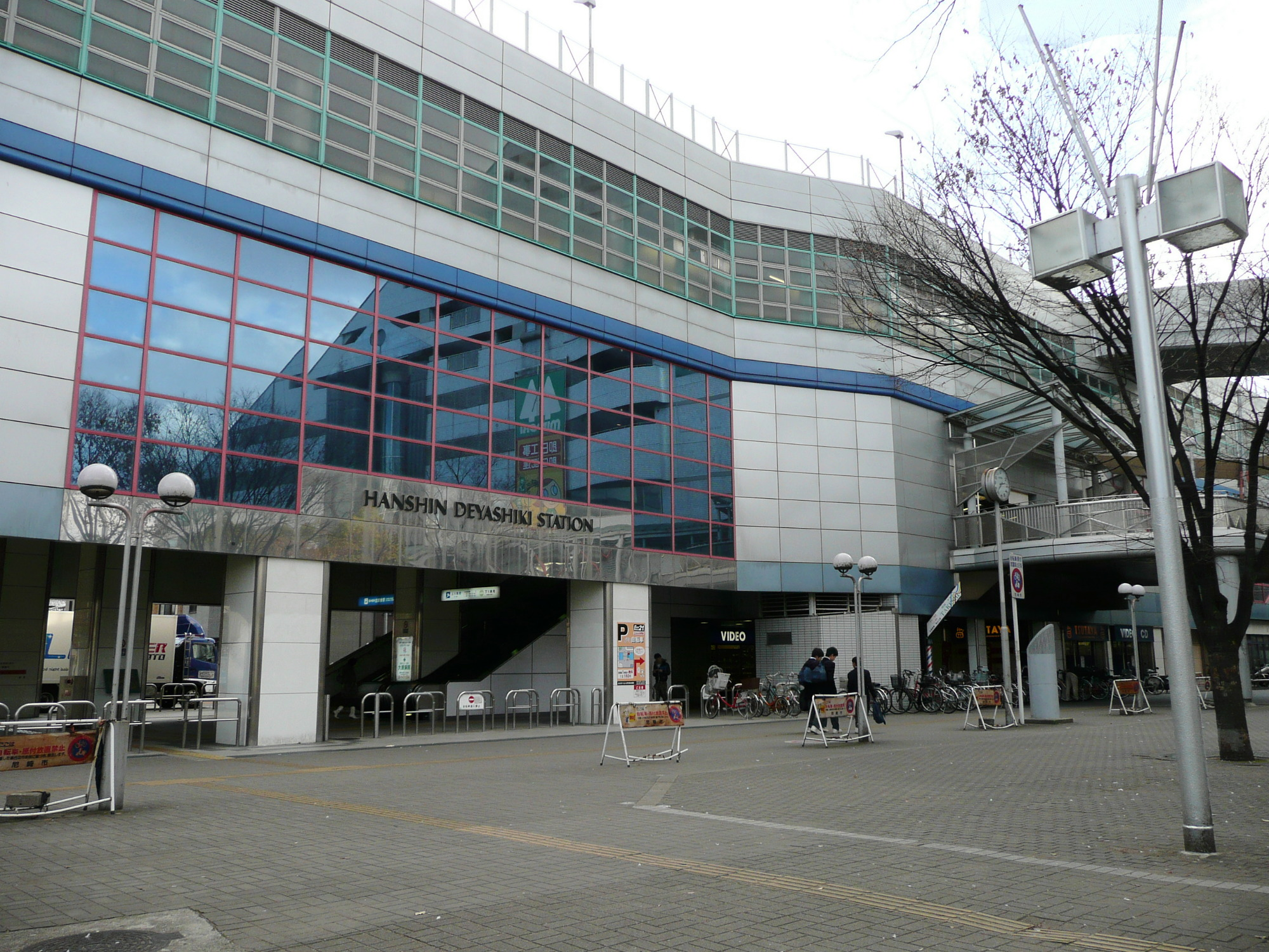 Hanshin Electric Railway,Main Line,DEyashiki Station. /阪神本線出屋敷駅北口